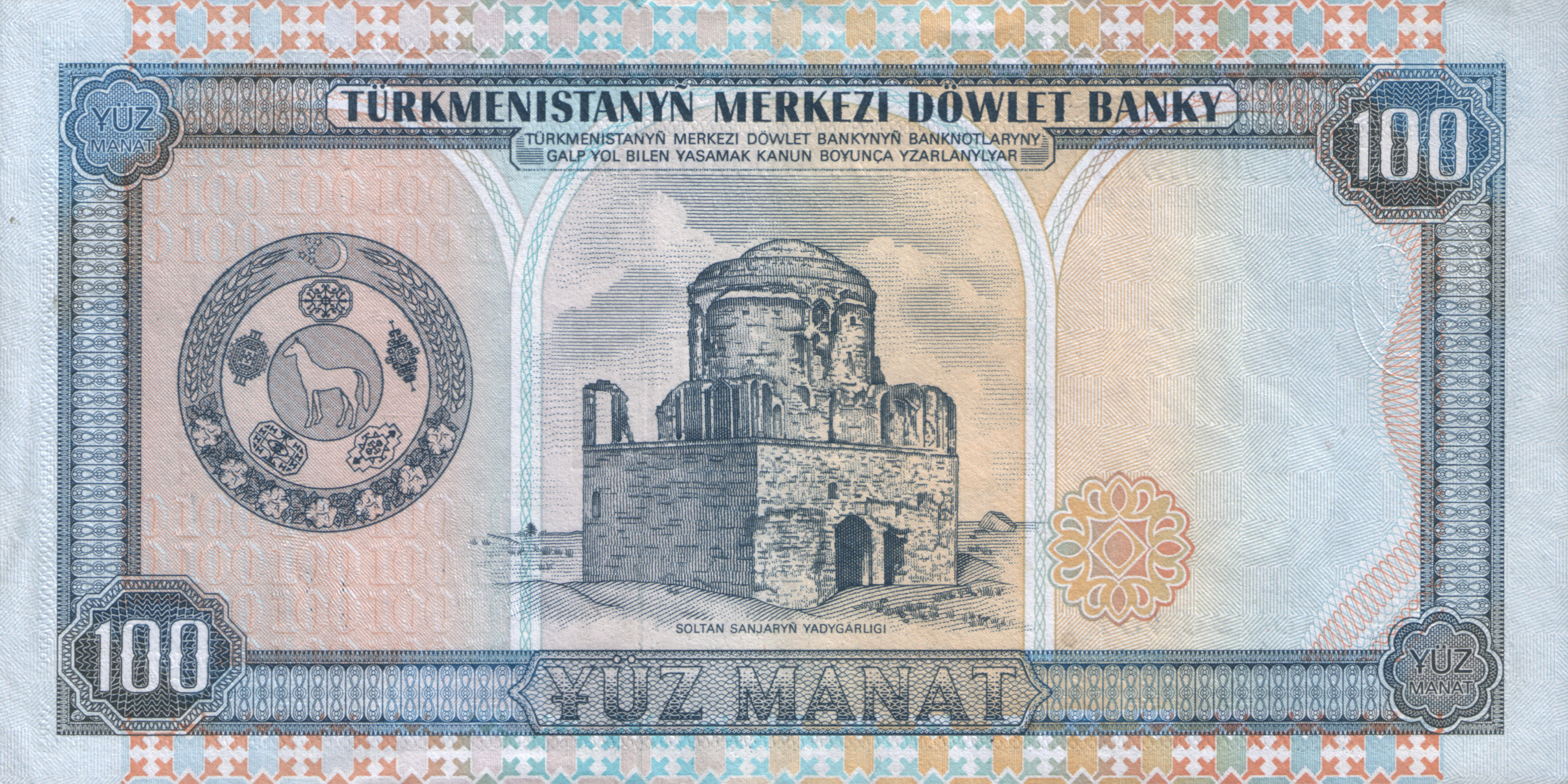 100 manats of Turkmenistan (1993)